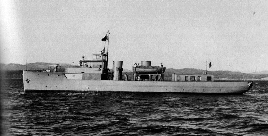 Royal Canadian Navy patrol vessel HMCS Cougar (Z15) in the Strait of Juan de Fuca